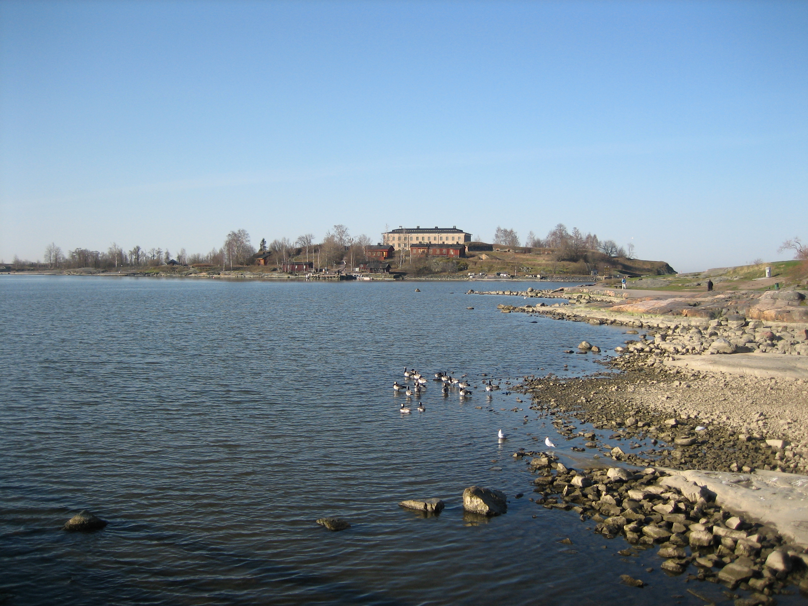 Harakka island off Helsinki coastline seen from Kaivopuisto